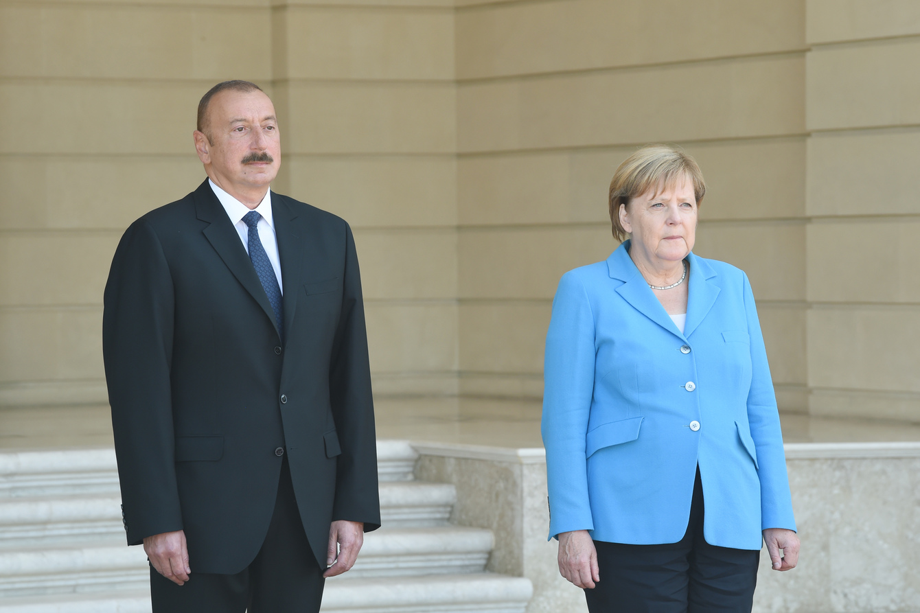 Official meeting ceremony of Federal Chancellor of Germany Angela Merkel was held